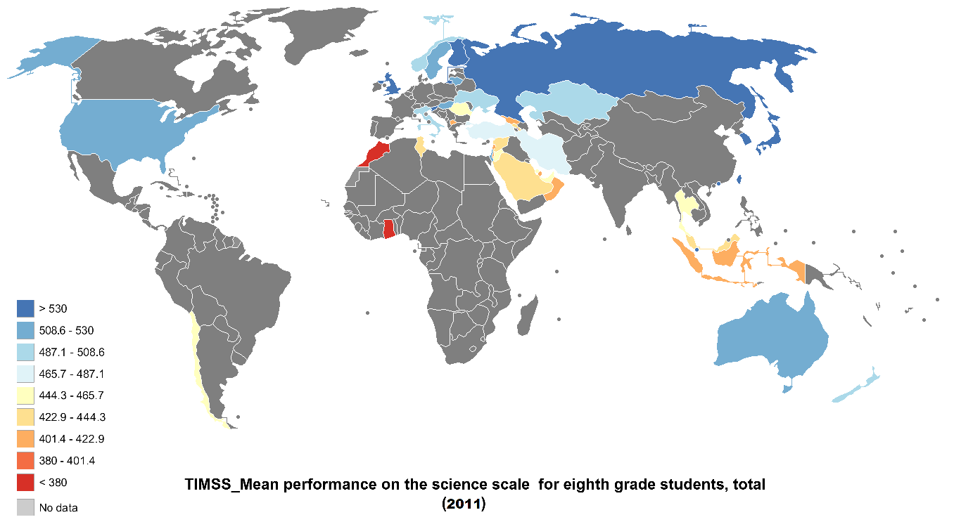 Trends in International Mathematics and Science Study 2011 science 8th grade, fixed